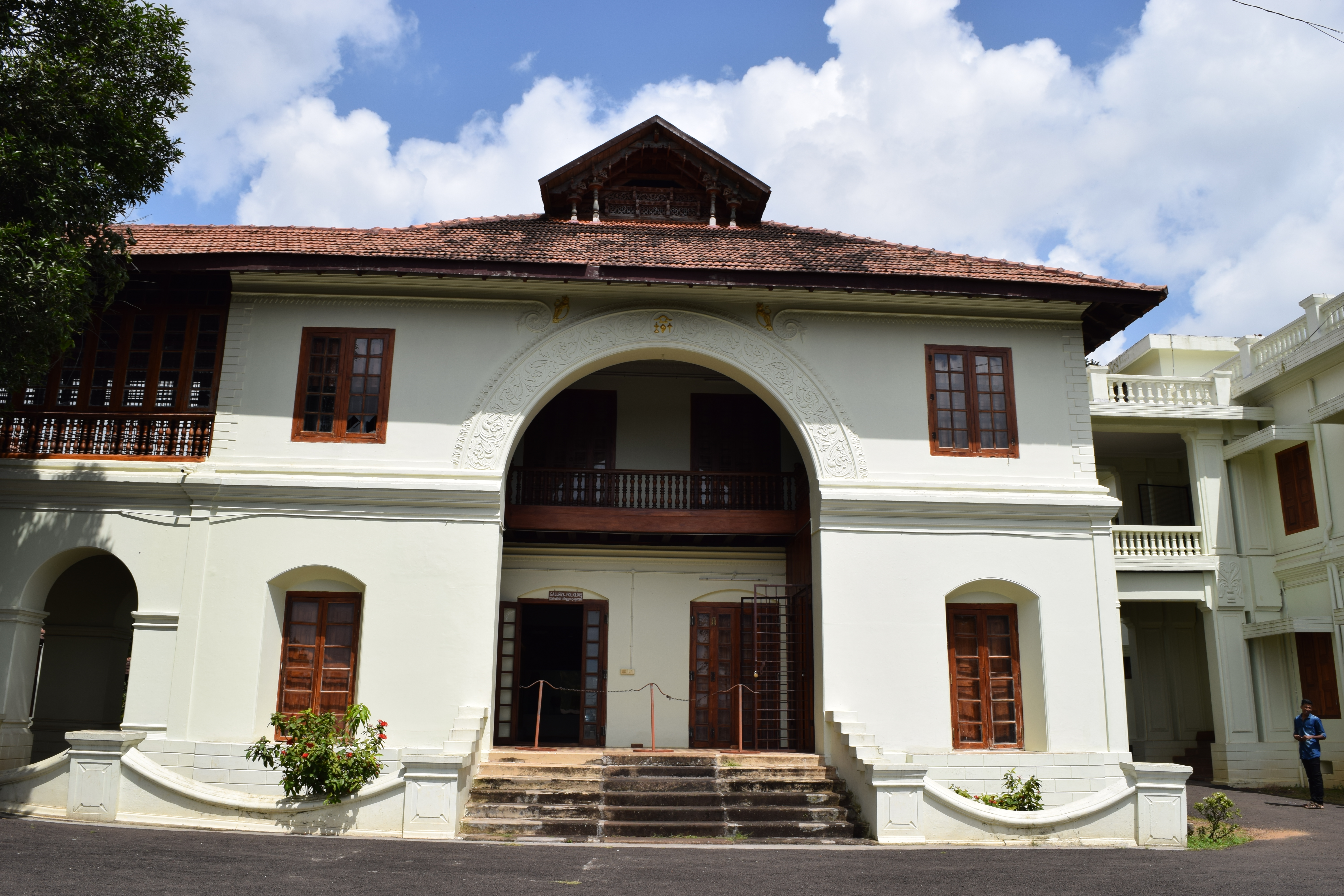 Hill Palace Museum is the largest archaeological museum in Kerala, at Tripunithura, Kochi.